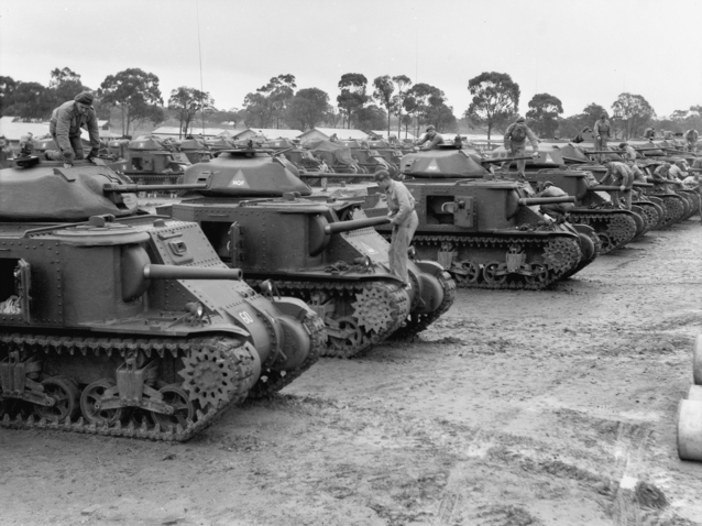 PUCKAPUNYAL, VIC. 1942-06-20 TO 1942-06-21. GENERAL GRANT M3 MEDIUM TANKS OF THE 1ST. AUSTRALIAN ARMOURED DIVISION LINED UP FOR A LAST MINUTE CHECK BEFORE MOVING INTO POSITION FOR ACTION DISPLAY AND MARCH PAST AT THE REVIEW OF THE DIVISION BY GENERAL SIR THOMAS BLAMEY, COMMANDER-IN-CHIEF ALLIED LAND FORCES.